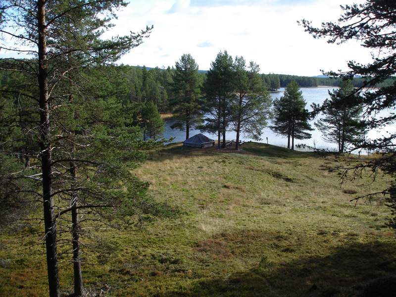 Koppsele, an old forest sami dwelling by the river Malån. The open ground where reindeer were held has more recently been used for hay-making.